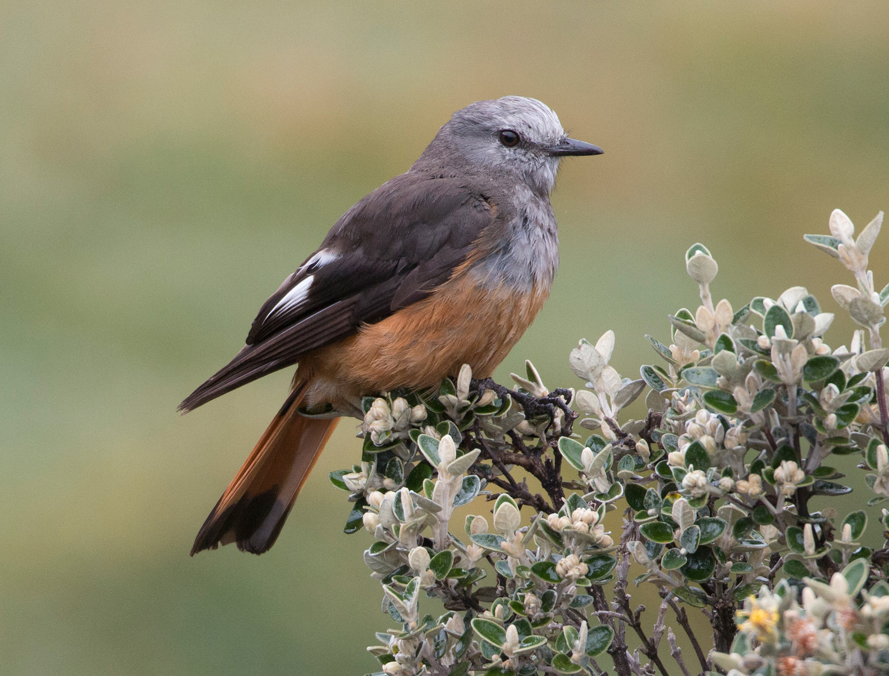 Red-rumped-Bush-tyrant, Cajas National Park, Ecuador